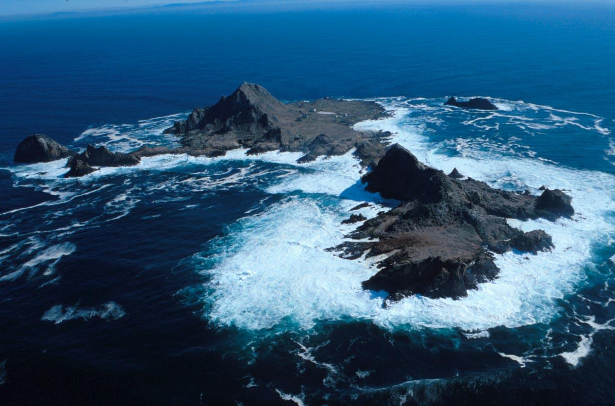 Photo of the South Farallon Islands (Southeast Farallon Island with Maintop Island in the foreground) in Farallon Islands National Wildlife Refuge